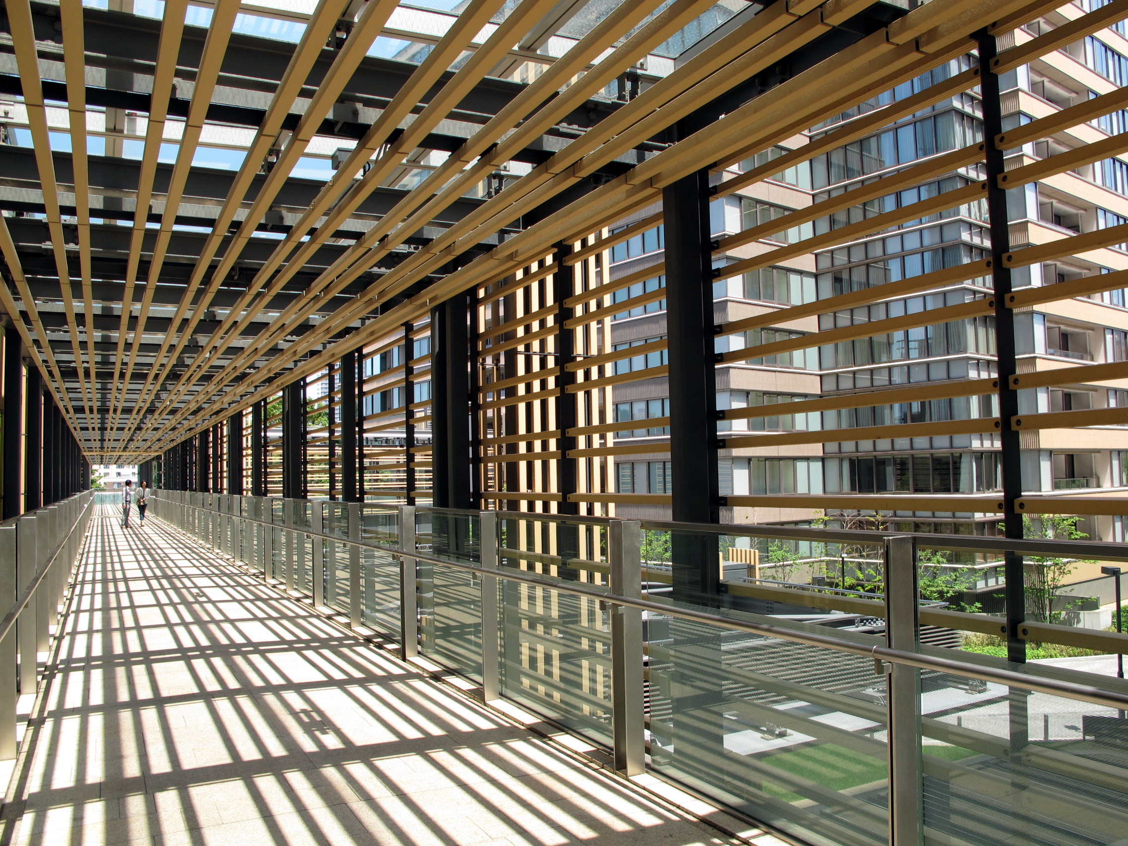 Coverway inside Tokyo Midtown